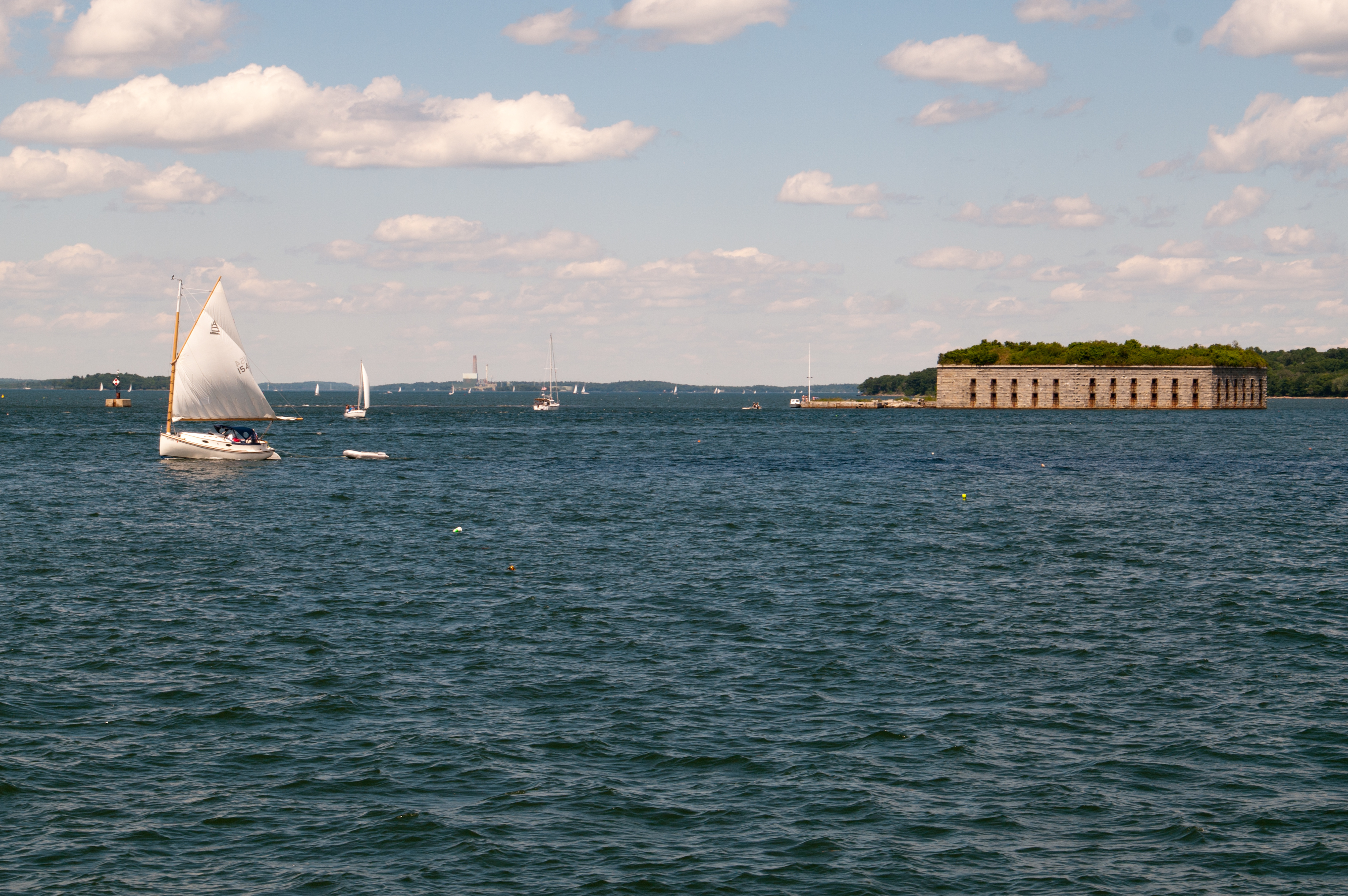 Fort Gorges, Maine